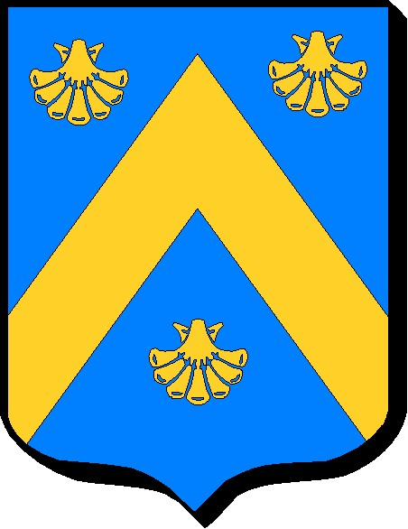 Coat of arms Mazancourt